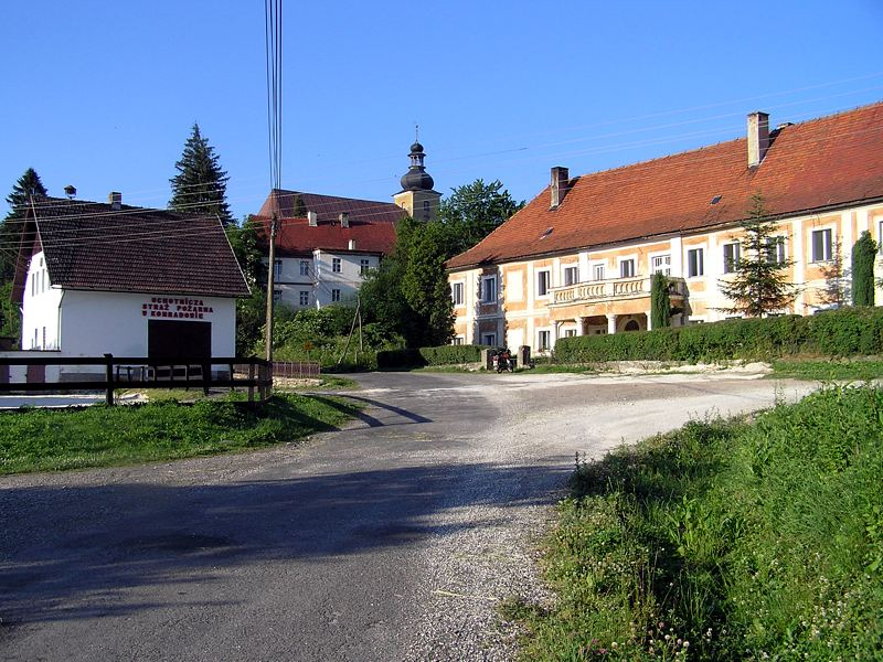 Village Konradów (municipality Lądek-Zdrój, Lower Silesia, Poland)